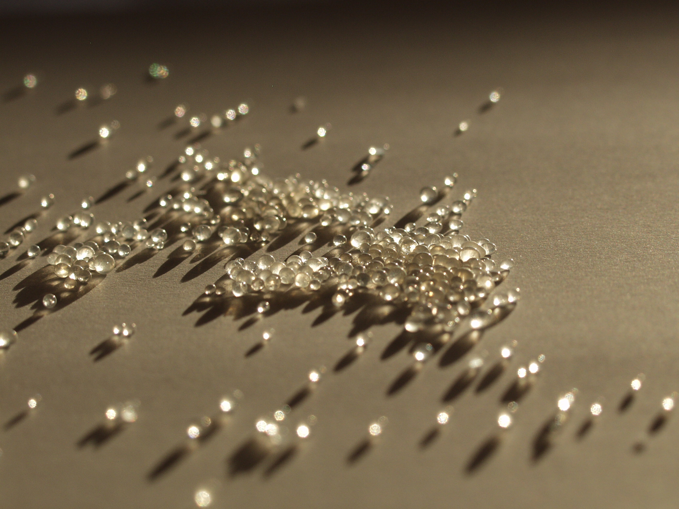 Silica gel beads sparkling in light